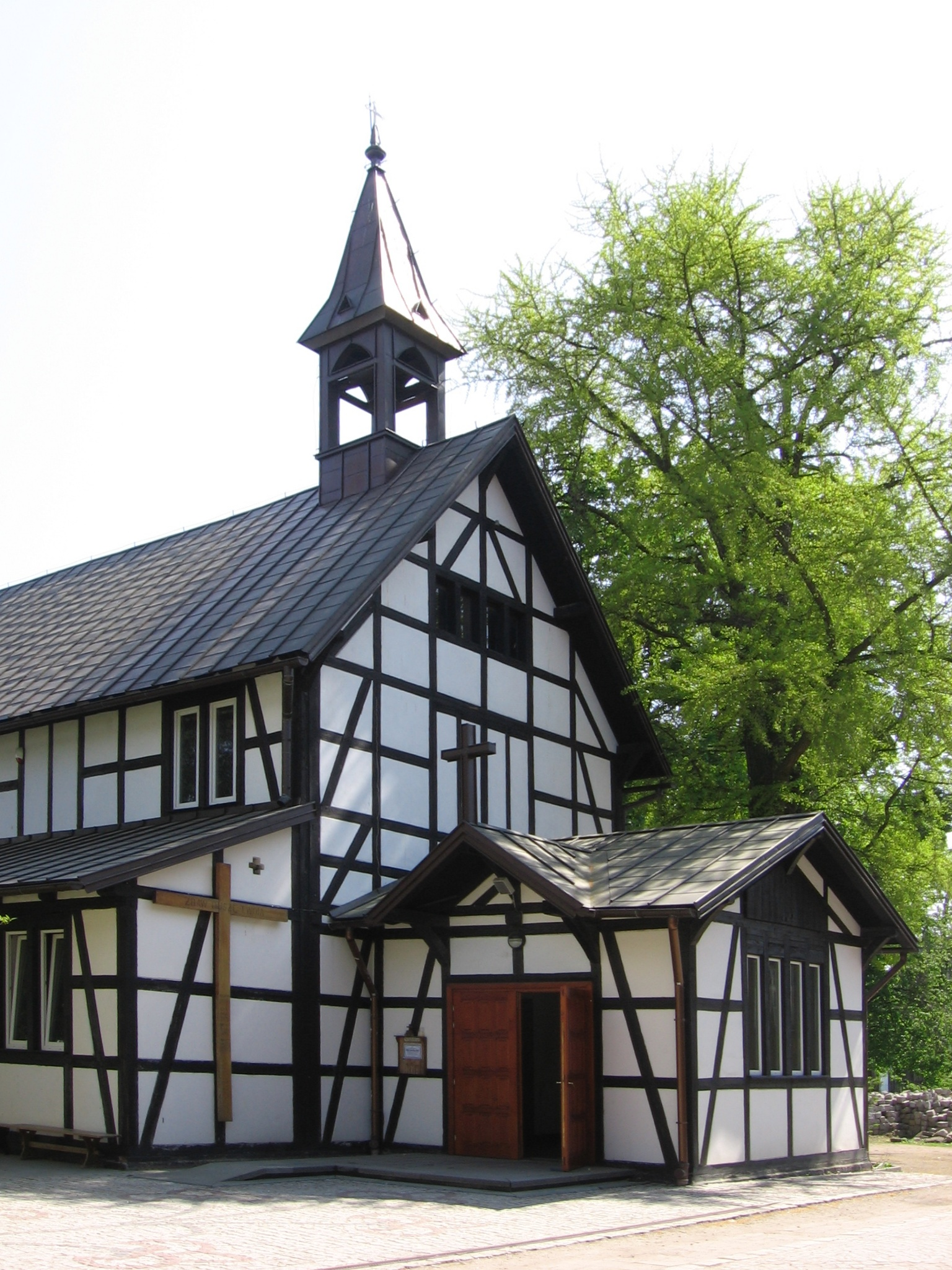 Wrocław, Poland - the church of Mary of Consolation (Wittiga street)